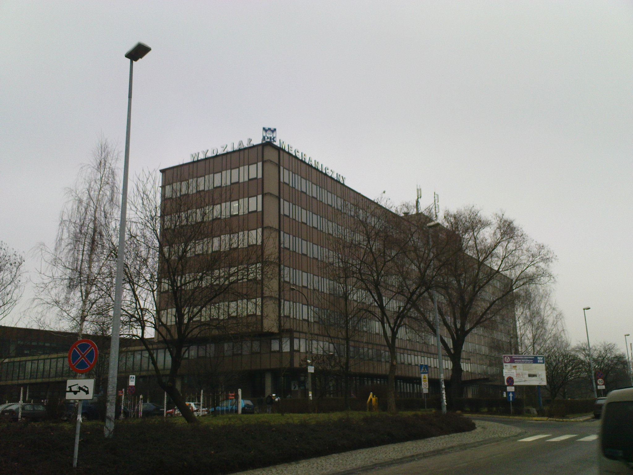 Cracow University of Technology Mechanical Engineering